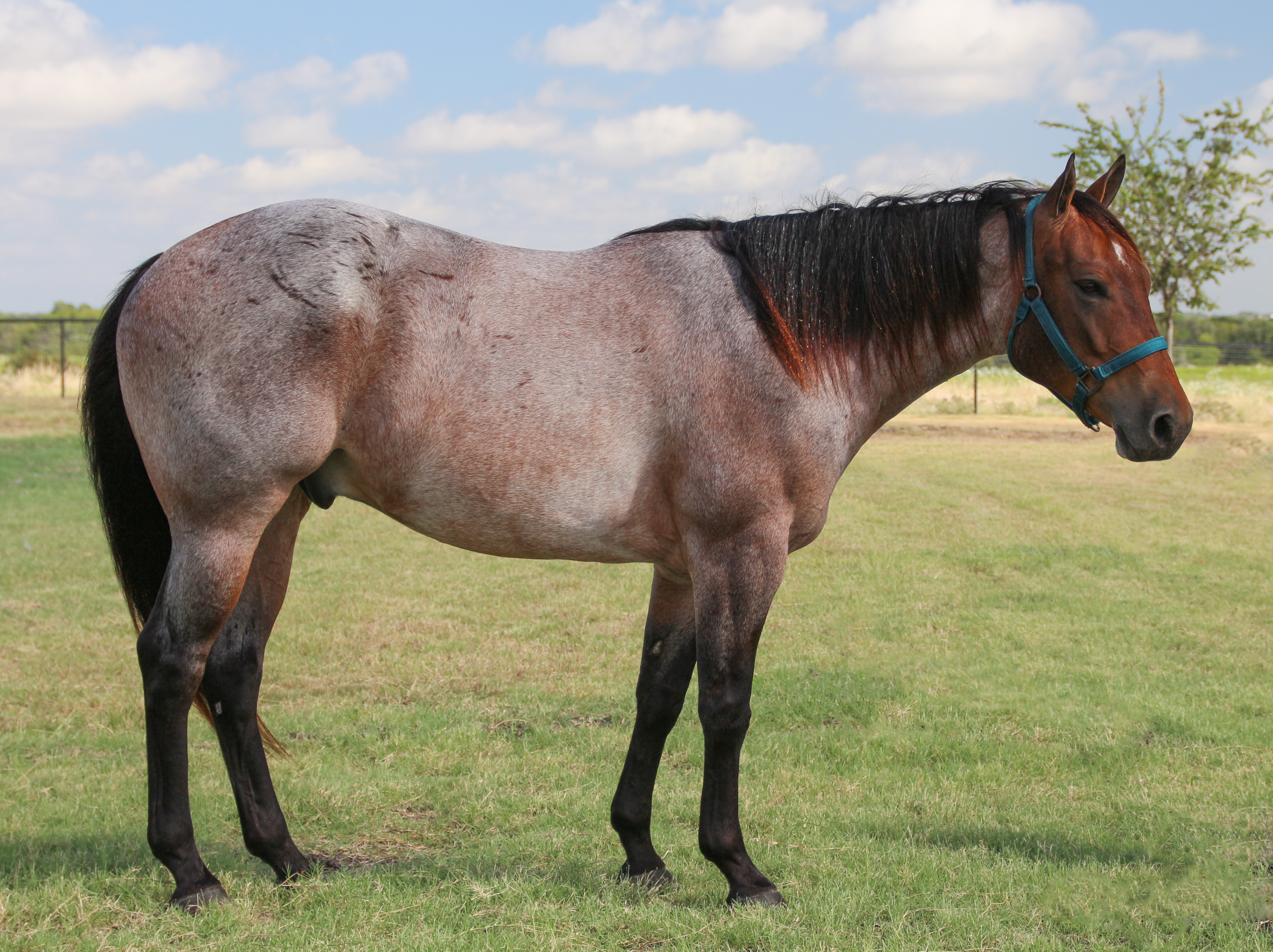 The color of this American Quarter Horse is described as "red roan" or sometimes "bay roan."